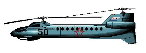 Drawing of the modeled V-50 from Kamov.